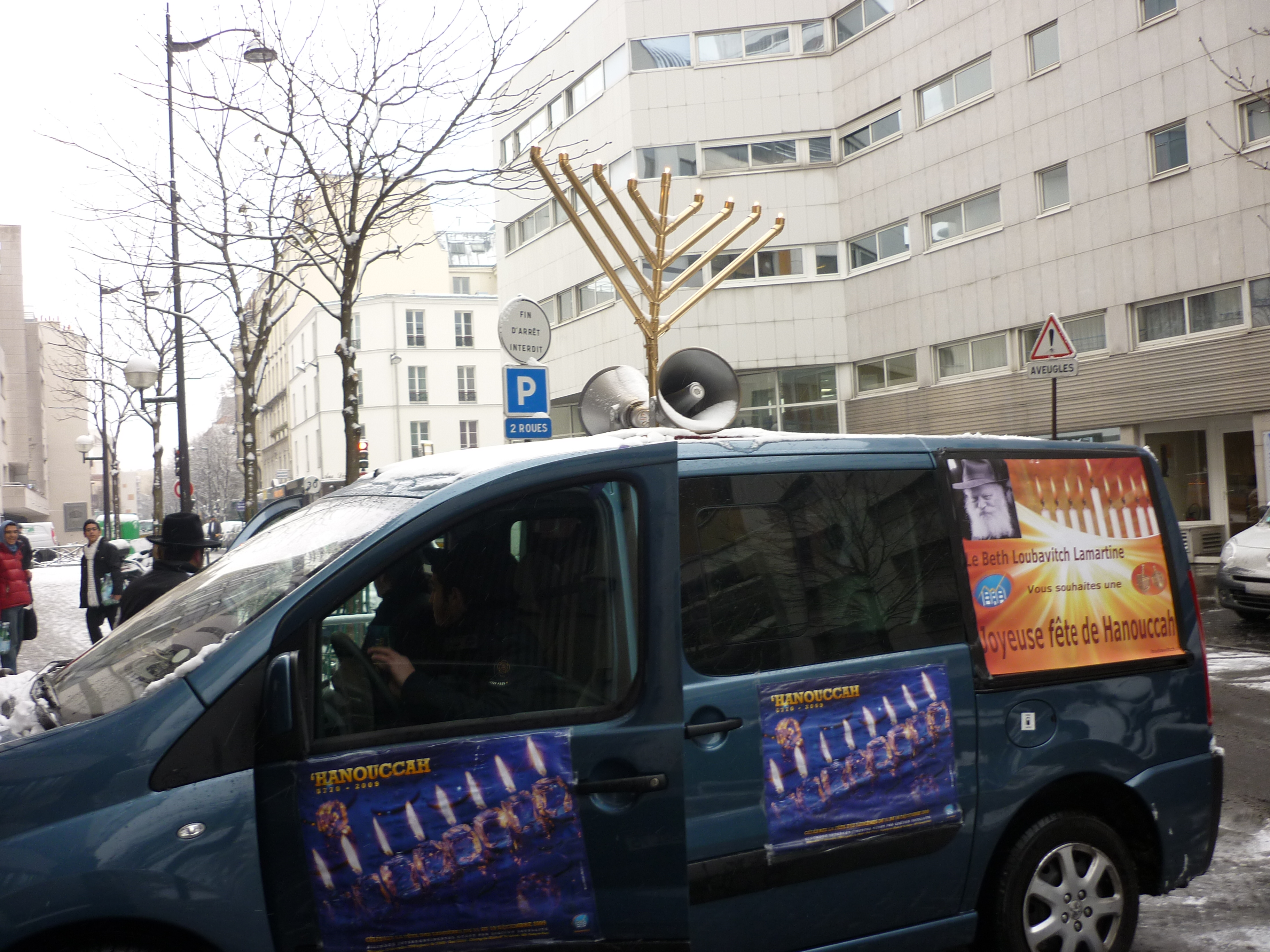 "the local Chabad House in the 19th drives this around Paris to get Jewish people interested in Hanukka services. They play Hebrew rap through the loudspeakers... The guys driving the vehicle were really happy about their new van. Previosly, they had been using a very old paneled truck so it's nice to see they have something safer." Photo taken December 2009.